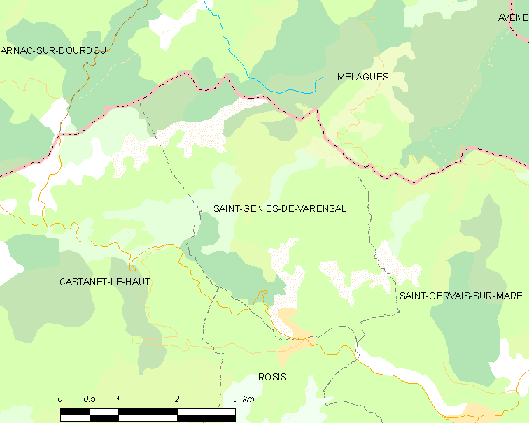 Map commune FR insee code 34257.png - Saint-Geniès-de-Varensal